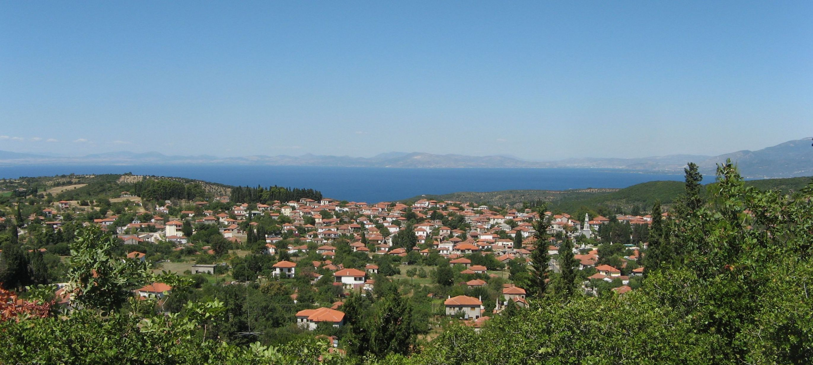 Argalasti is a municipality of the prefecture Magnisia (Greece)